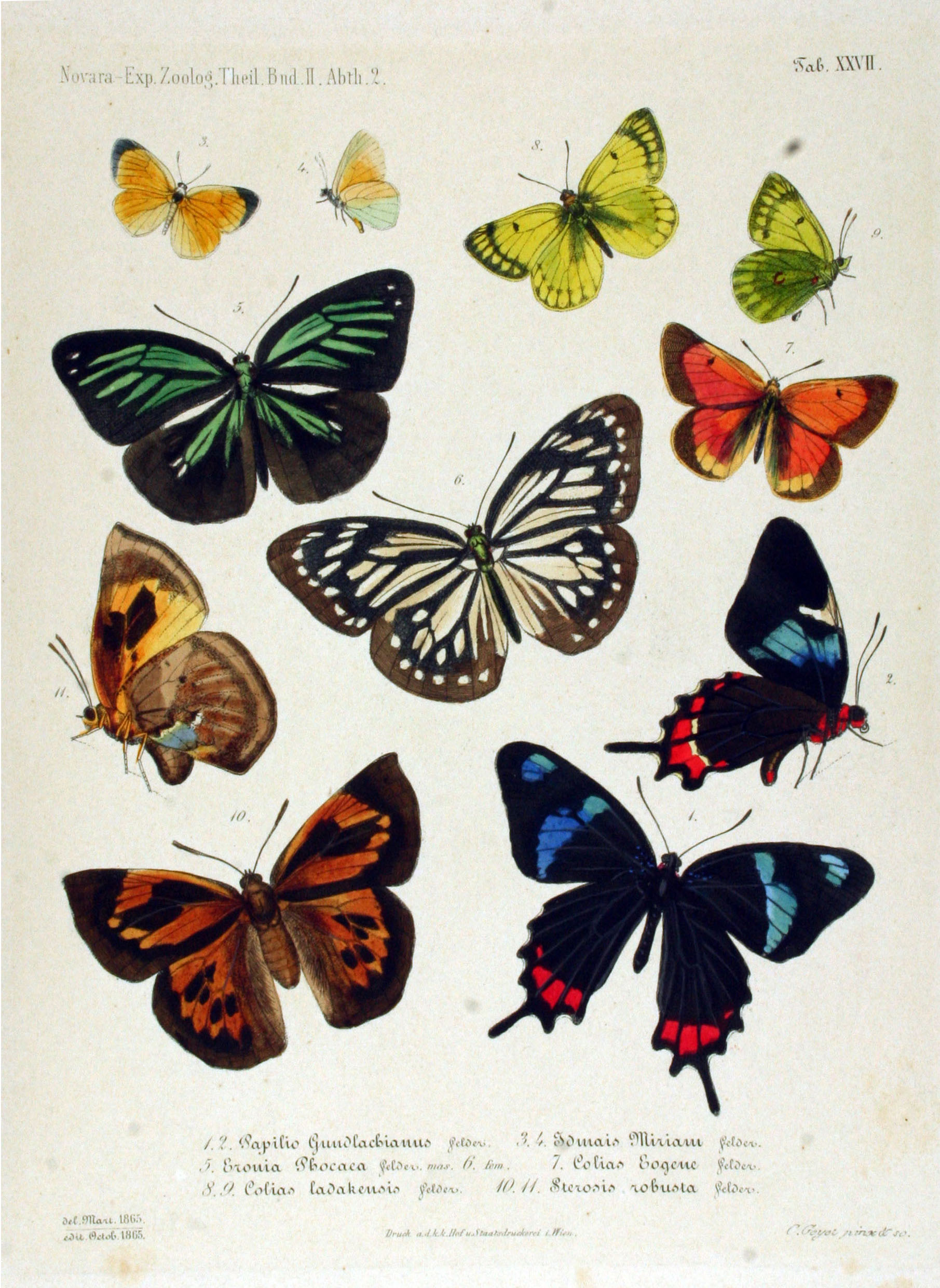 Reise der Österreichischen Fregatte Novara um die Erde in den Jahren 1857, 1858, 1859 unter den Befehlen des Commodore B. von Wüllerstorf-Urbair. (1864) Zoologischer Theil. 2. Band. Zweite Abteilung: Lepidoptera. Atlas.Tafel XXVII. Papilio gundlachianus; Idmais miriam; Eronia phocaea; Colias eogene; Colias ladakensis; Sterosis robusta